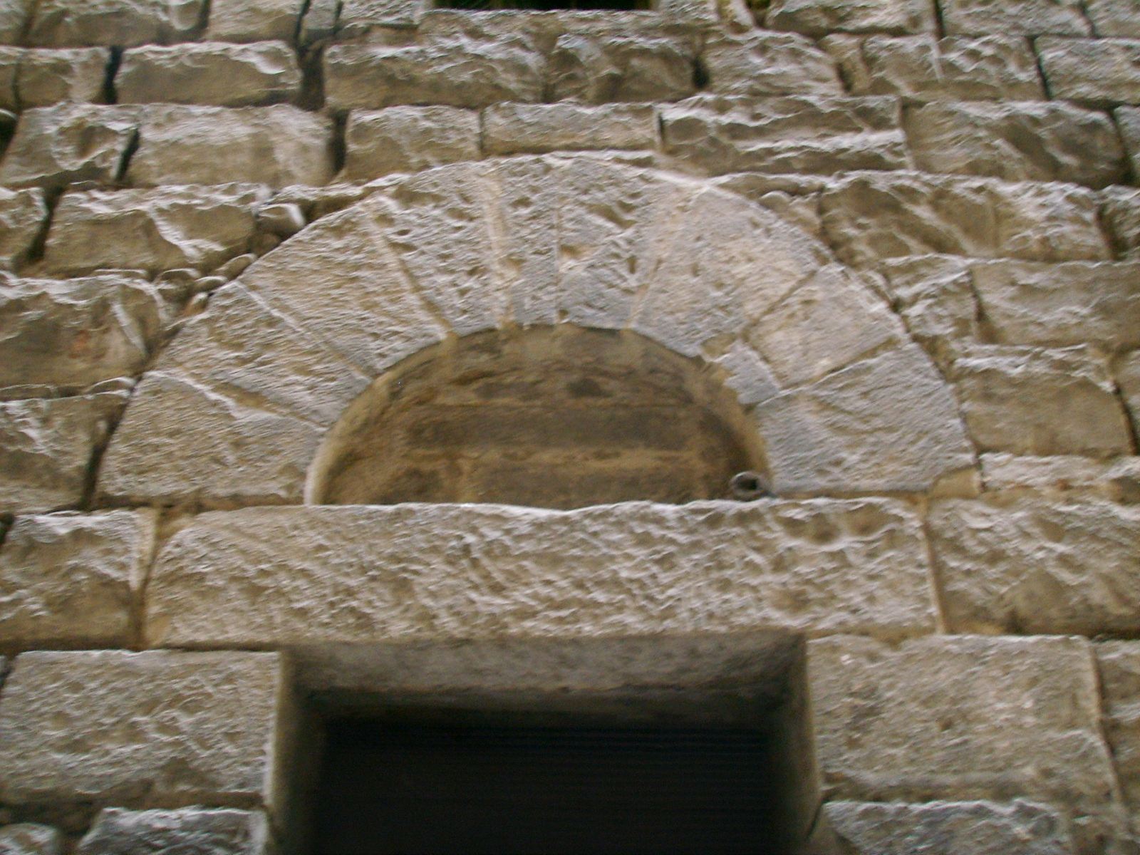 Detail of a small portal. Lintel and discharging arch, Torre dei Rigaletti, Florence, Italy.